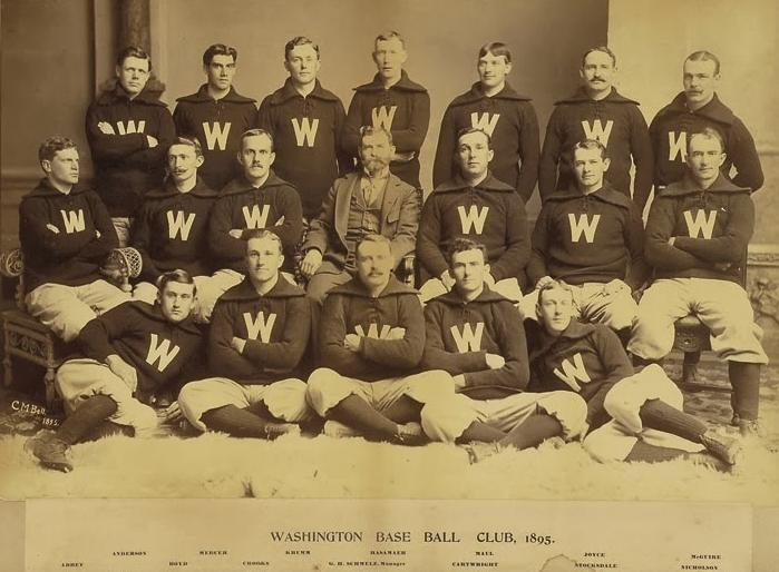 1895 Washington Senators baseball teamTop row, left to right: Varney Anderson, Win Mercer, Henry Krumm, Bill Hassamaer, Al Maul, Bill Joyce, Deacon McGuireMiddle row, left to right: Charlie Abbey, Jake Boyd, Jack Crooks, Gus Schmelz, Ed Cartwright, Otis Stocksdale, Parson NicholsonBottom row, left to right: Herman Collins, Kip Selbach, Dan Mahoney, John Malarkey, Dan Coogan